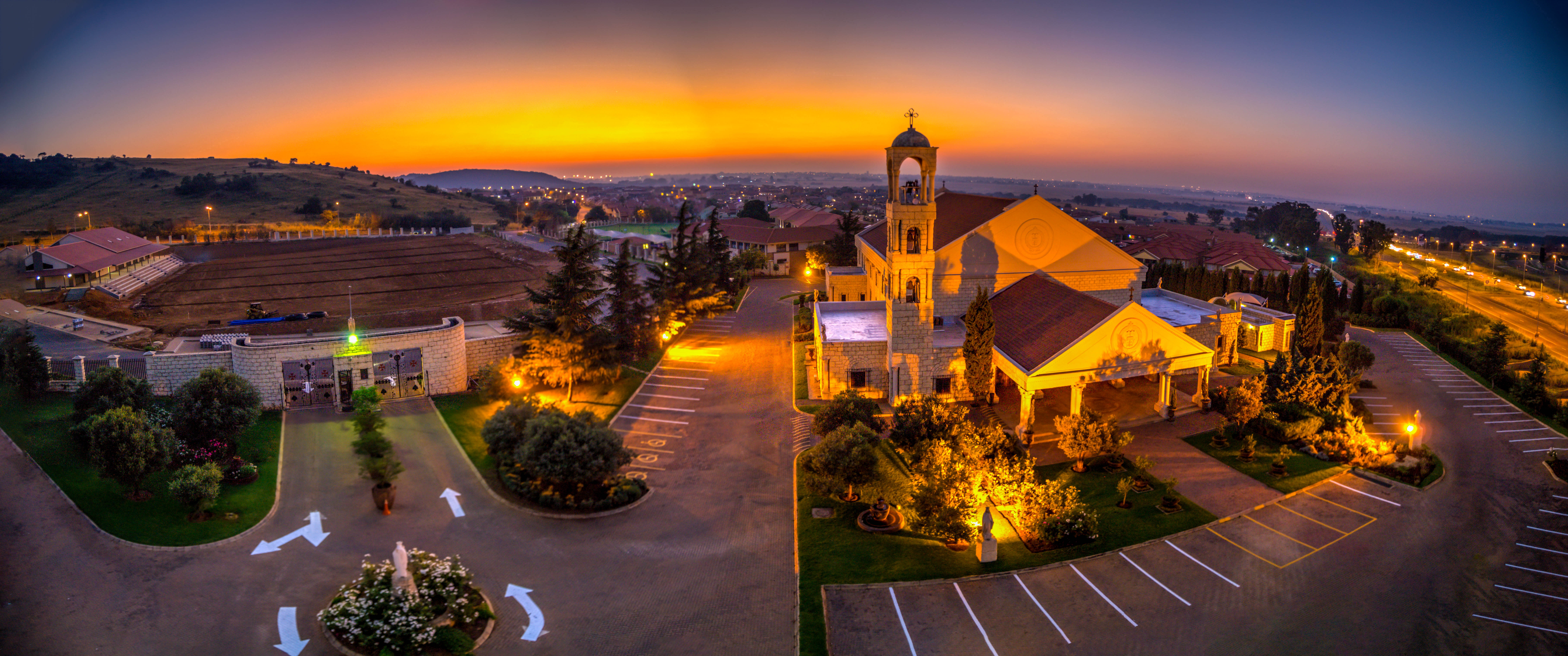 Our Lady Of Lebanon Mulbarton, Johannesburg